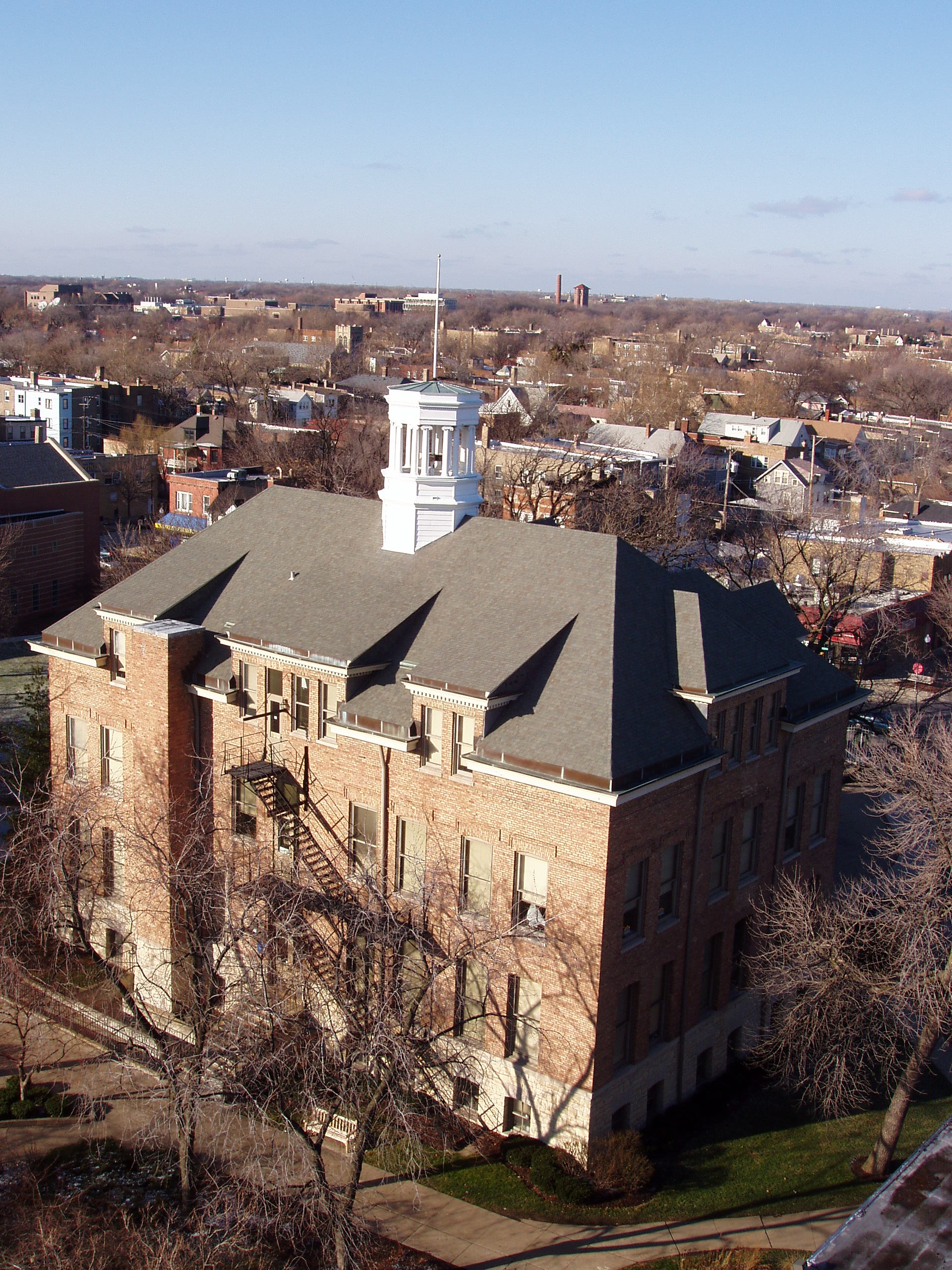 a view of Old Main and the surrounding neighborhood from Carlson Tower, the main class room building on campus.